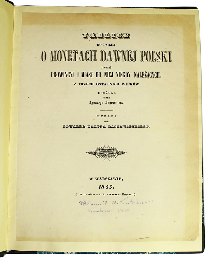 First page of the "Monety dawnej Polski", published in 1845.